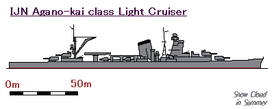 Japanese Agano-kai class light cruiser.